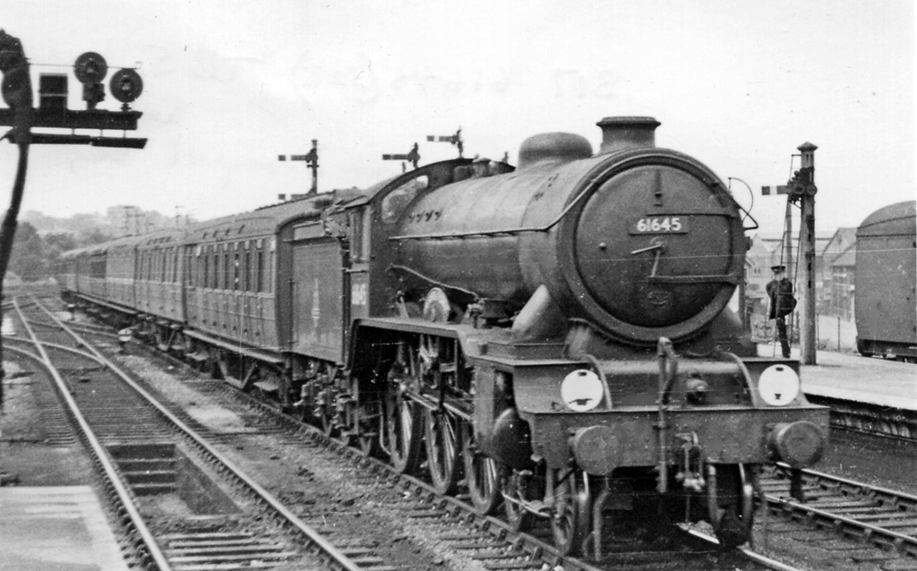 Ipswich Station, with Gorleston - Liverpool Street express arriving. View westward, towards Norwich, Lowestoft and Great Yarmouth via Beccles, also Felixtowe; ex-Great Eastern London - Norwich/Great Yarmouth main lines. The train is the Summer Saturday 11.01 from Gorleston-on-Sea via Lowestoft, headed by LNE B17/3 'Sandringham' 4-6-0 No. 61645 The Suffolk Regiment.